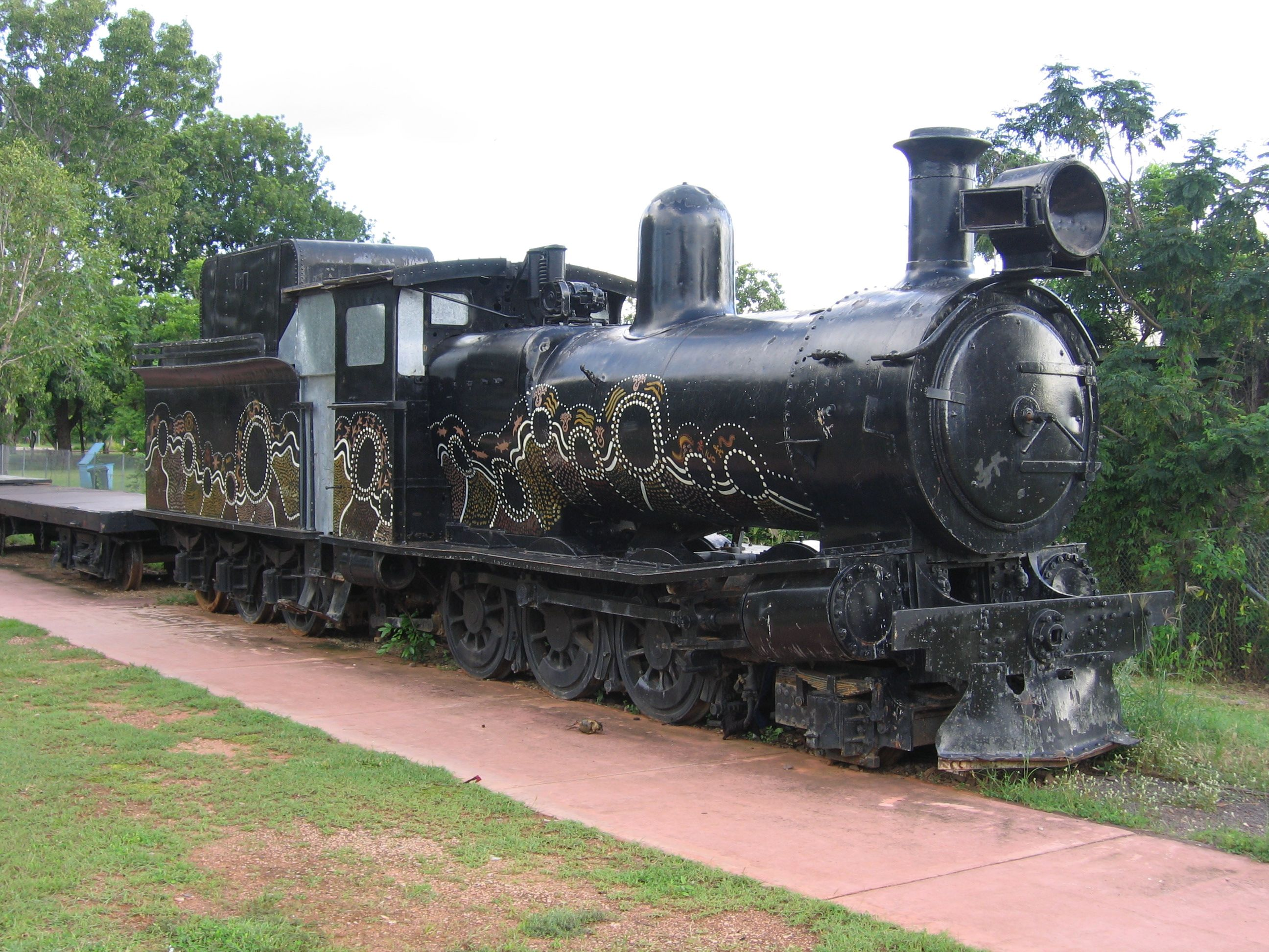 Ex-Commonwealth Railways steam locomotive NFB88 with Aboriginal art on side, in a park at Katherine, Northern Territory, South Australia